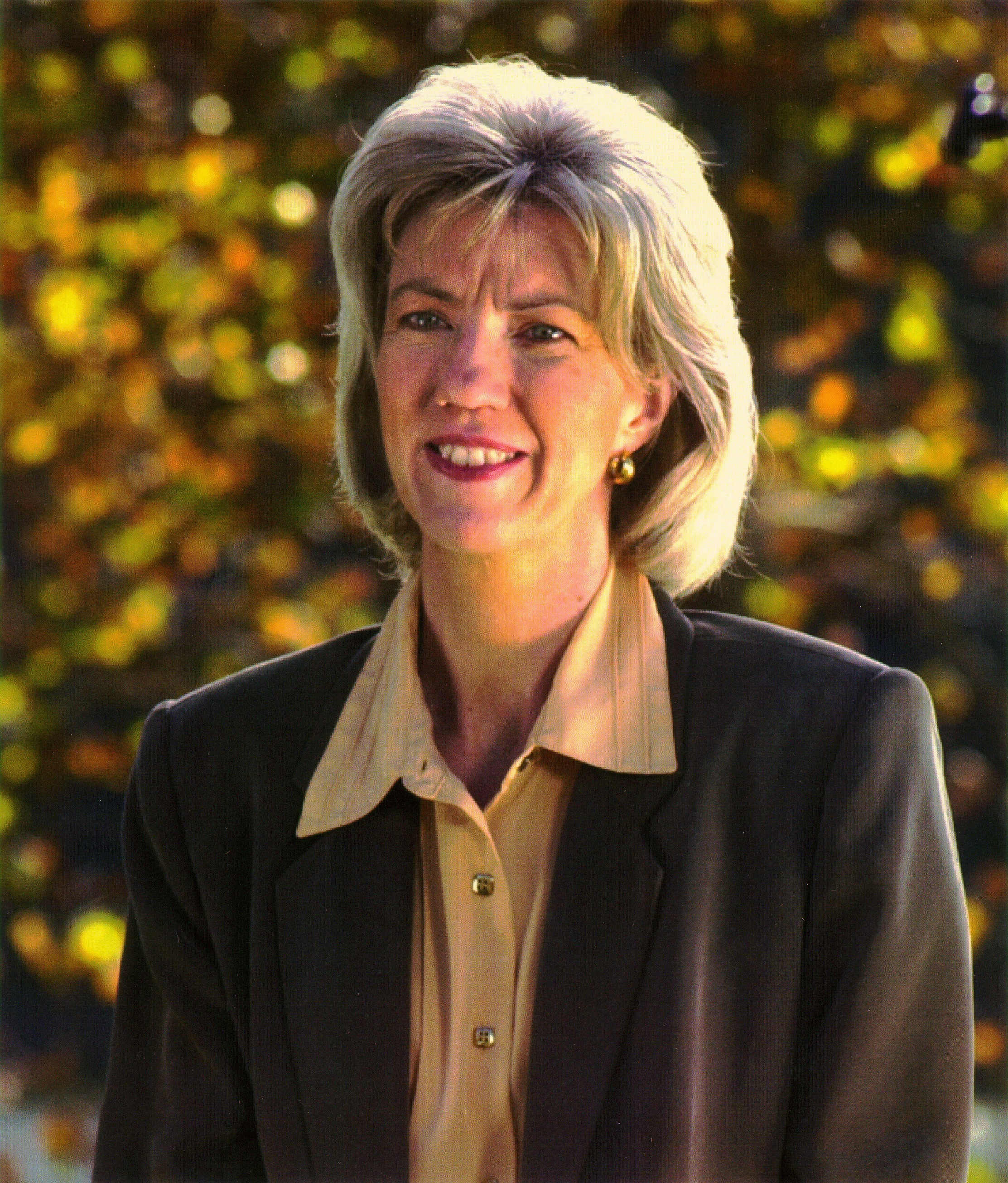 Category:Gale Norton, former Secretary of the Interior of the United States.